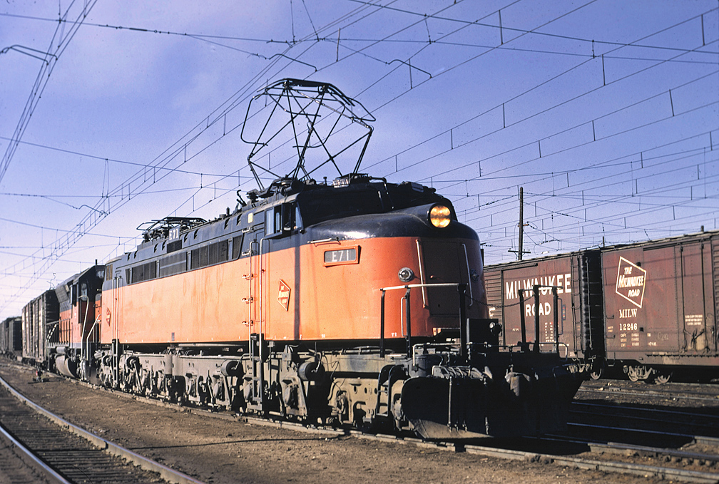 Arriving at Deer Lodge, Montana in August of 1971 MILW E71 (aka "little joe")